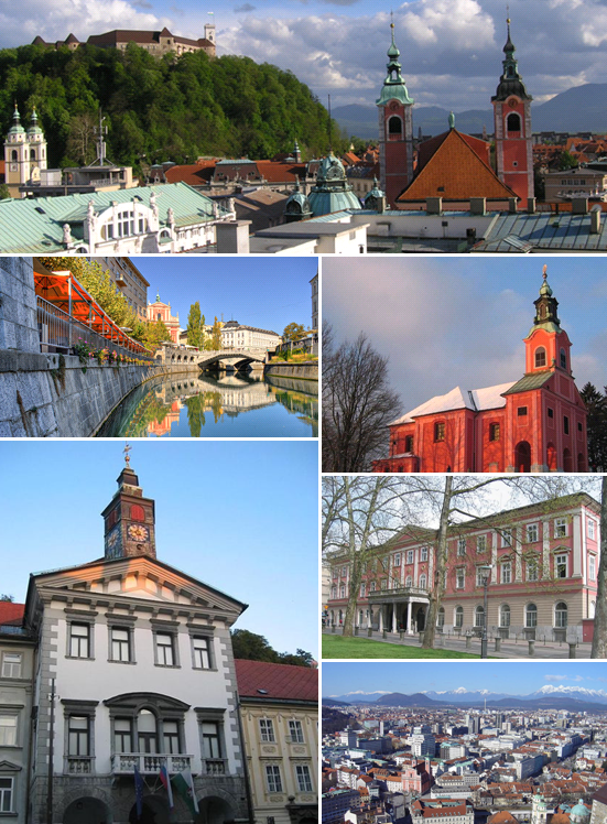 Montage of Ljubljana, Slovenia. Clockwise from top: Ljubljana Castle in the background and Franciscan Church of the Annunciation in the foreground; Visitation of Mary Church at Rožnik Hill; Kazina Palace at Congress Square; view from Ljubljana Castle towards the north; Ljubljana City Hall; Ljubljanica with the Triple Bridge in distance.